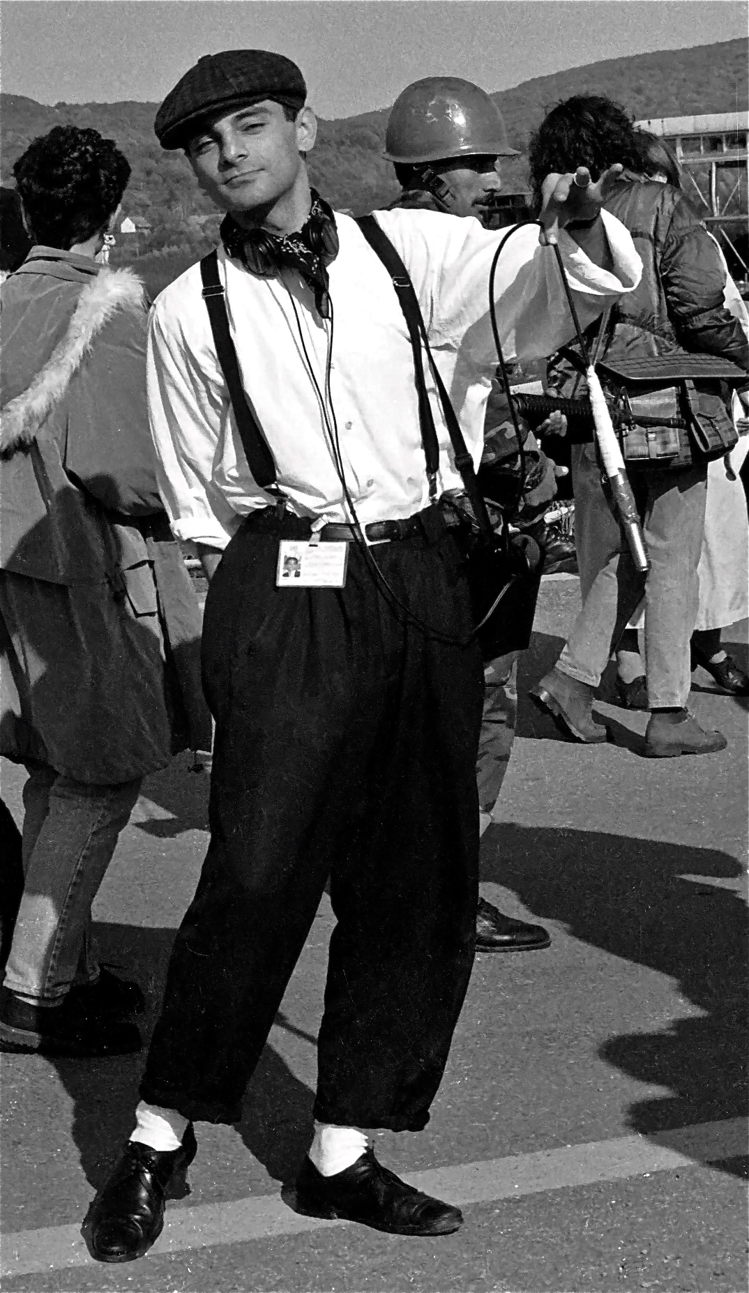 Dulmers clowning during a standoff between Republic of Serbian Krajina (RSK) militia and UNPROFOR personnel at an RSK roadblock near Vukovar on the Brotherhood and Unity Highway between Zagreb and Belgrade, 1992. Christian Maréchal photo